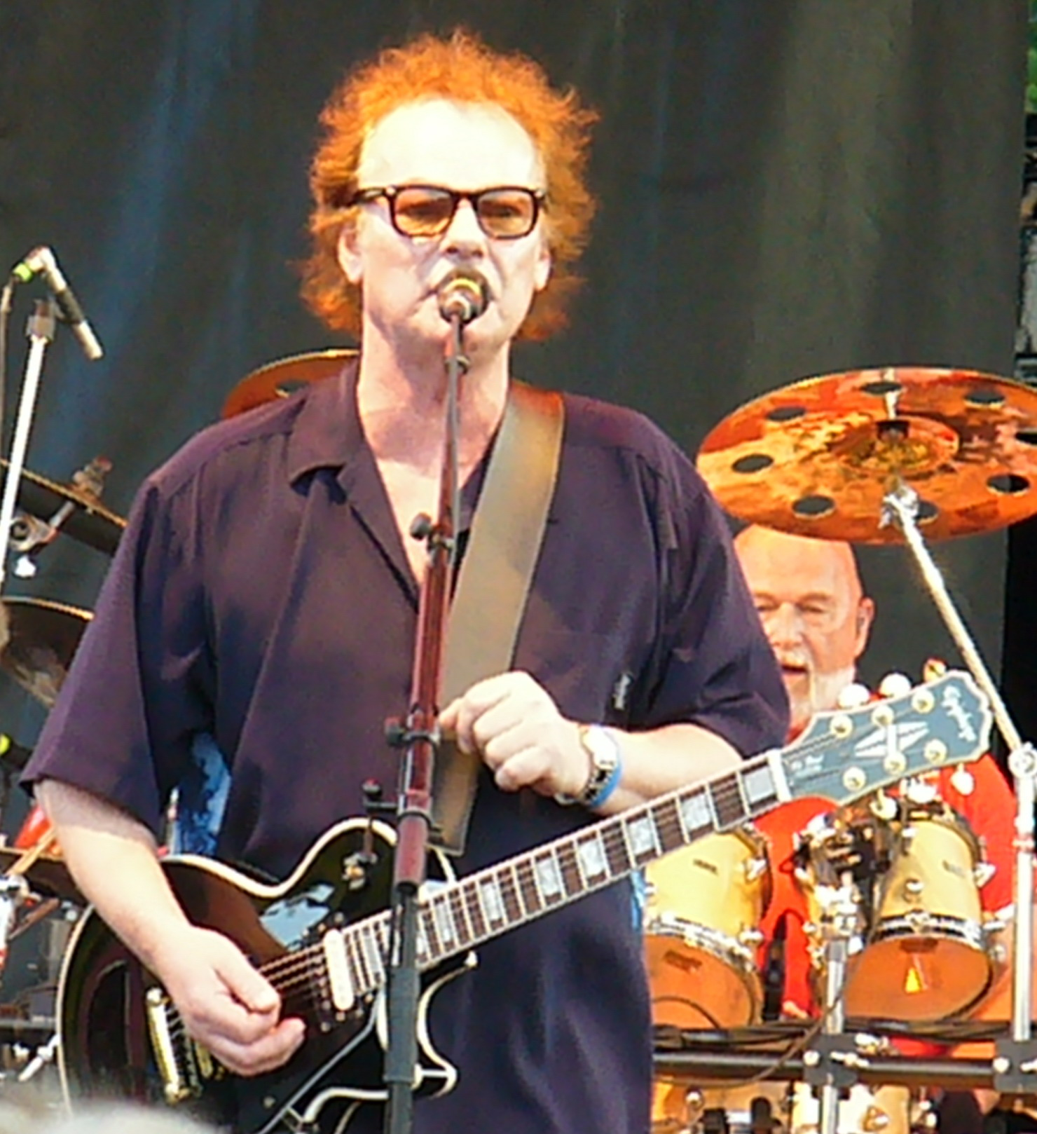 Canadian musician Myles Goodwyn in concert as part of April Wine at the 2008 Fergus Truck Show